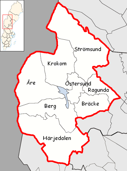 Municipalities in the county Jämtland in Sweden Designed by me. Mere outlines are a PD source from